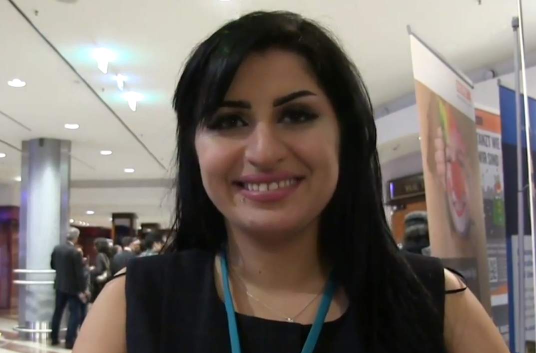 Screenshot from interview: File:Rana Ahmad interviewed by Maryam Namazie 2017.webm.